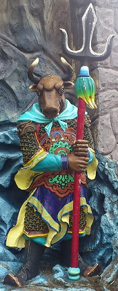 Statue of the Ox-Headed Hell Guard at Haw Par Villa, Singapore